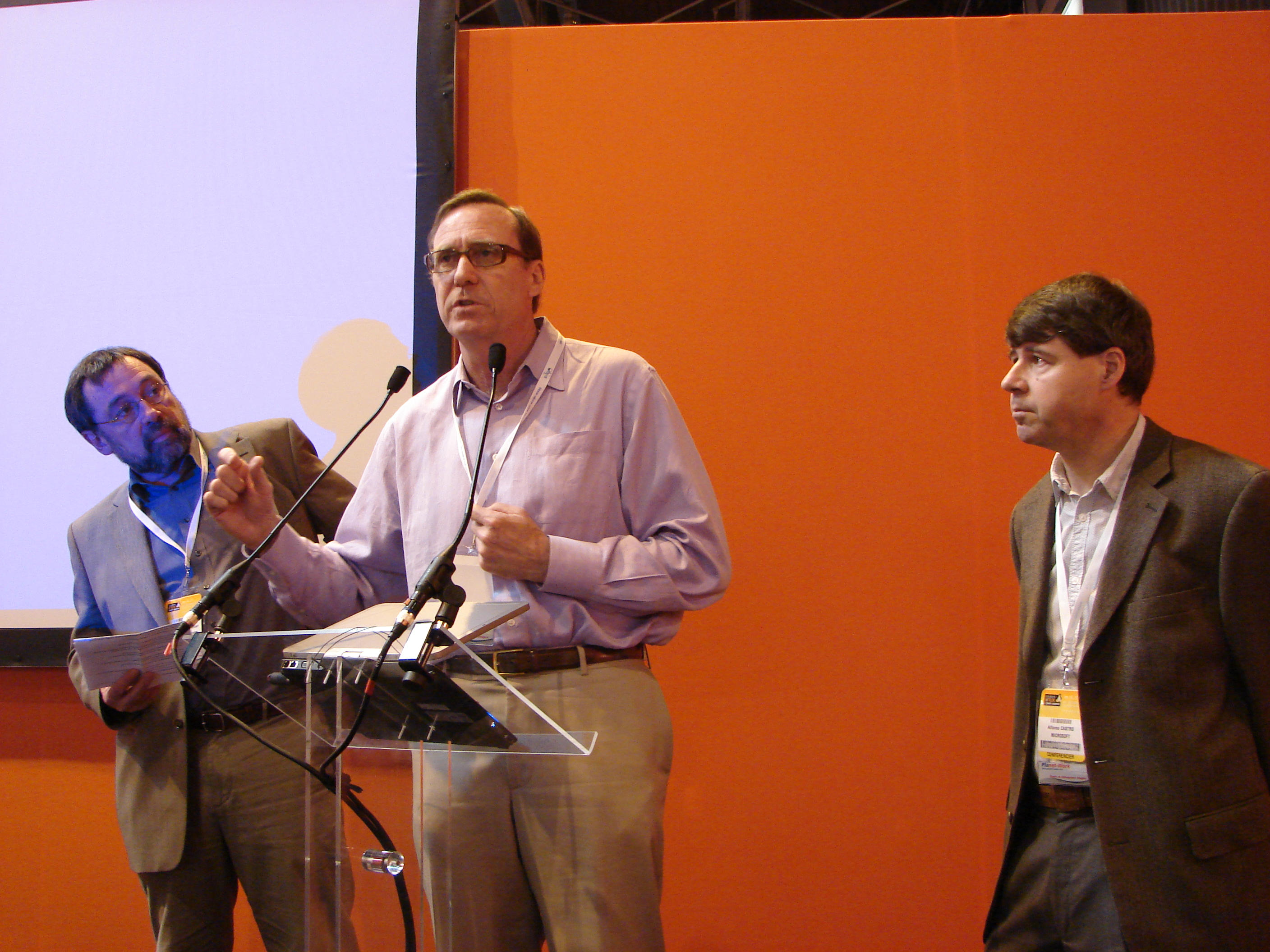 Tom Hanrahan and Alfonso Castro in 2010 at Linux solutions as Microsoft speaker (Paris, France).